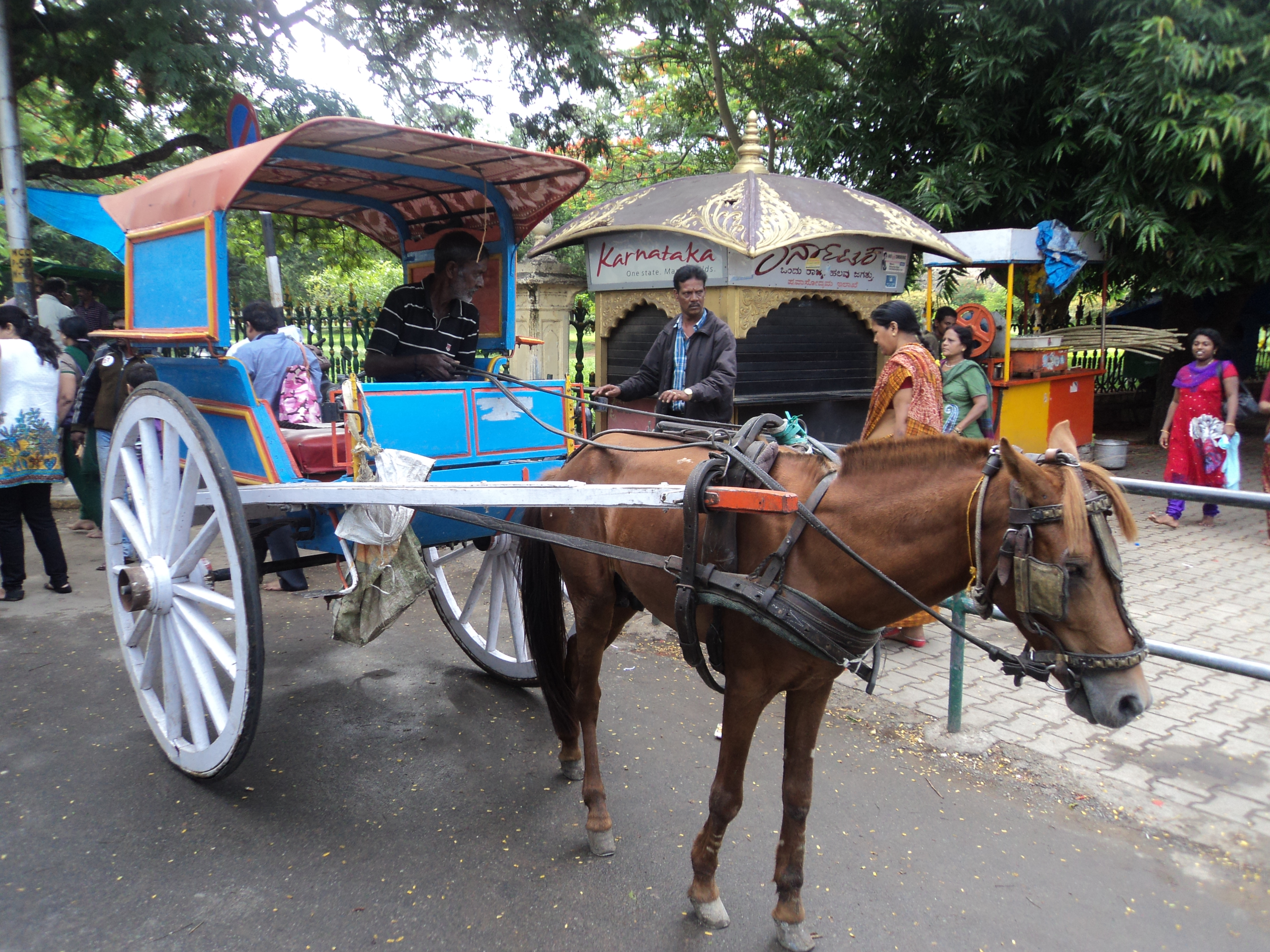 Obsolete vehicle